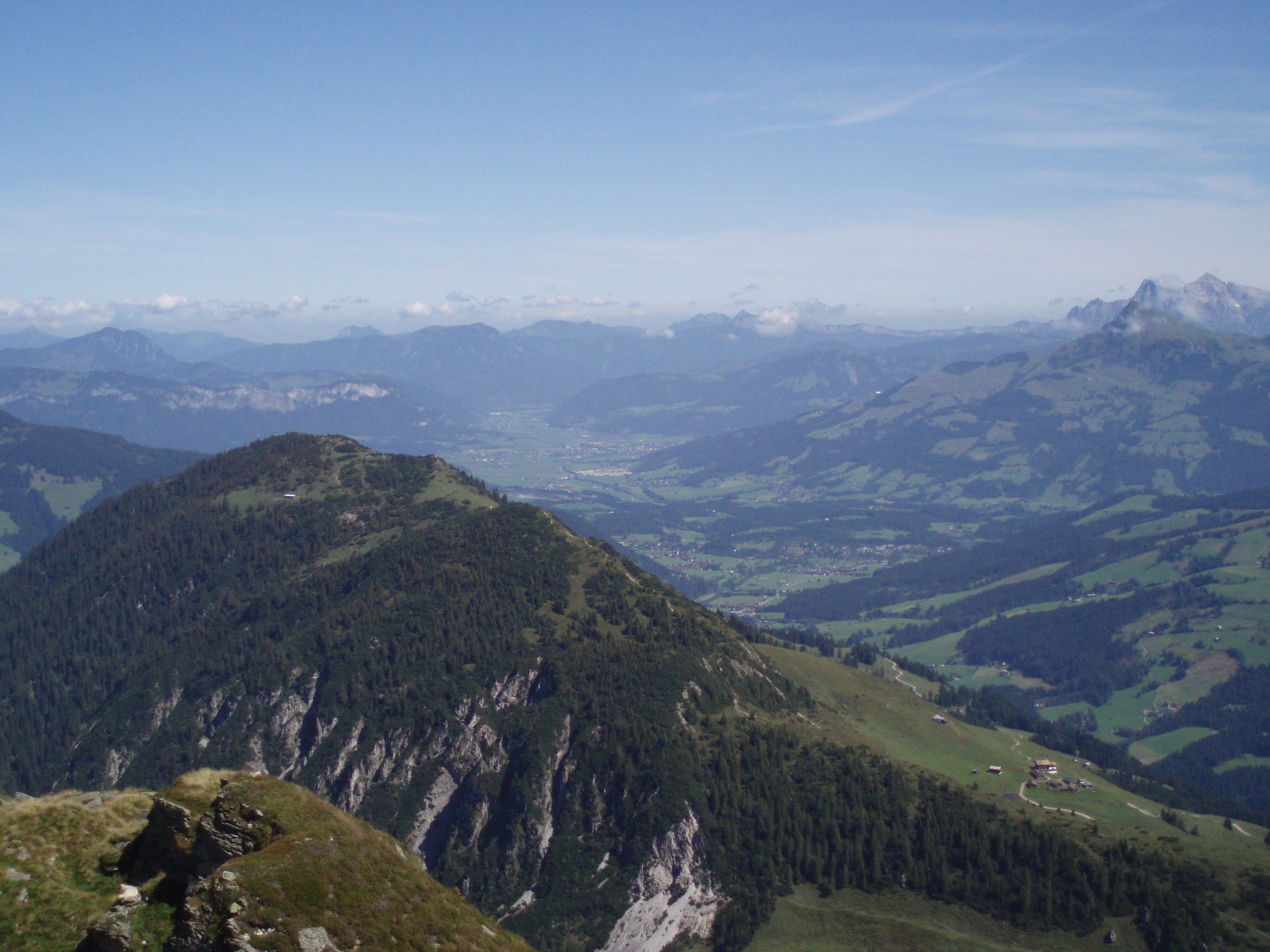 The Leukental valley in Tyrol, Austria